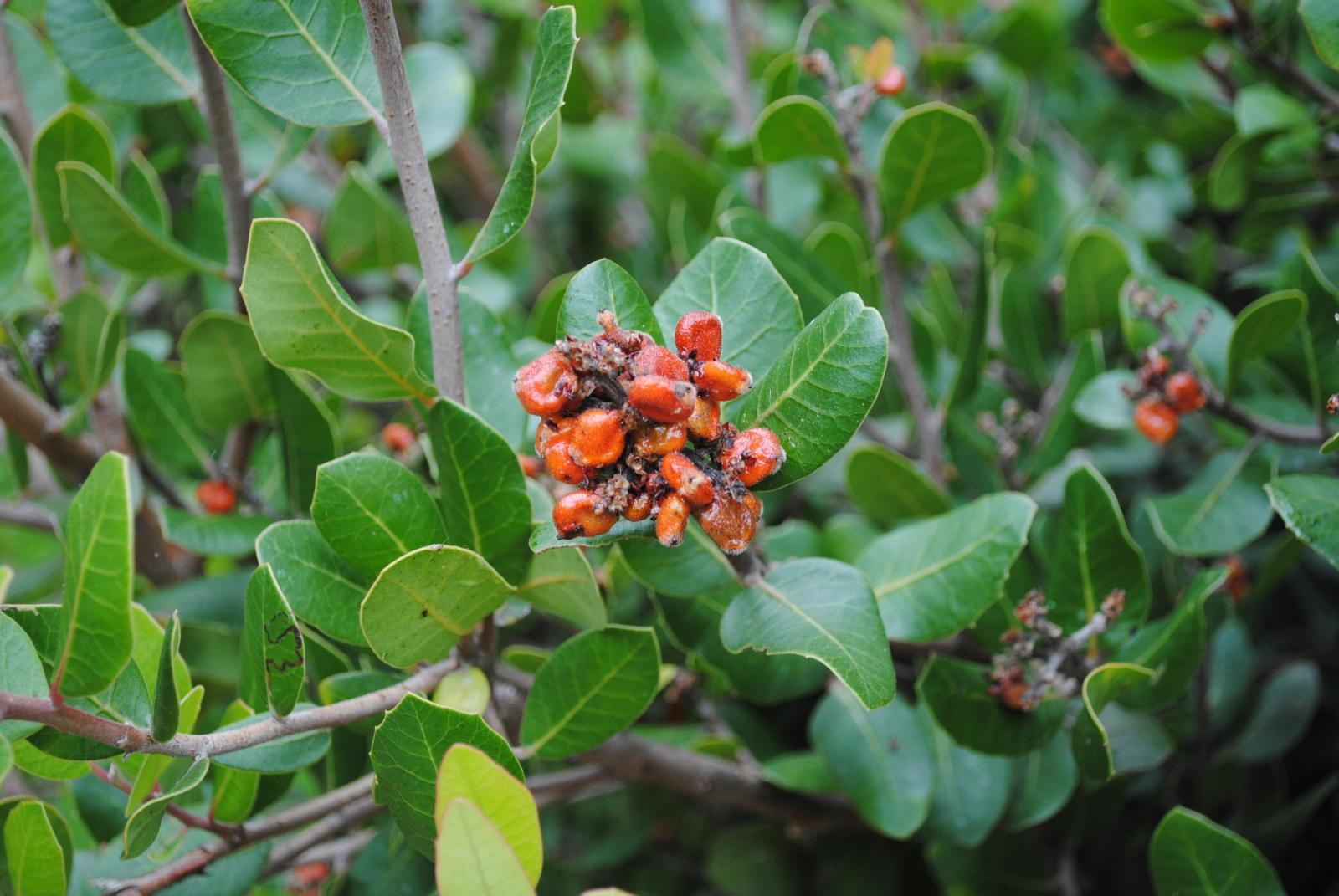 A lemonade berry plant in Ruffin Canyon, San Diego. Plant is showing leaves and multiple berries.